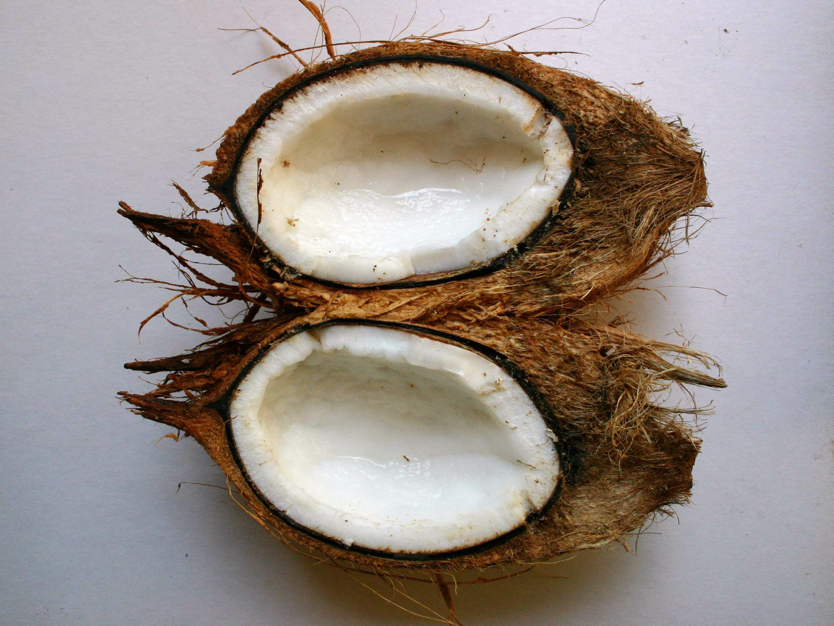 Longitudinal section of Cocos nucifera fruit, showing endosperm